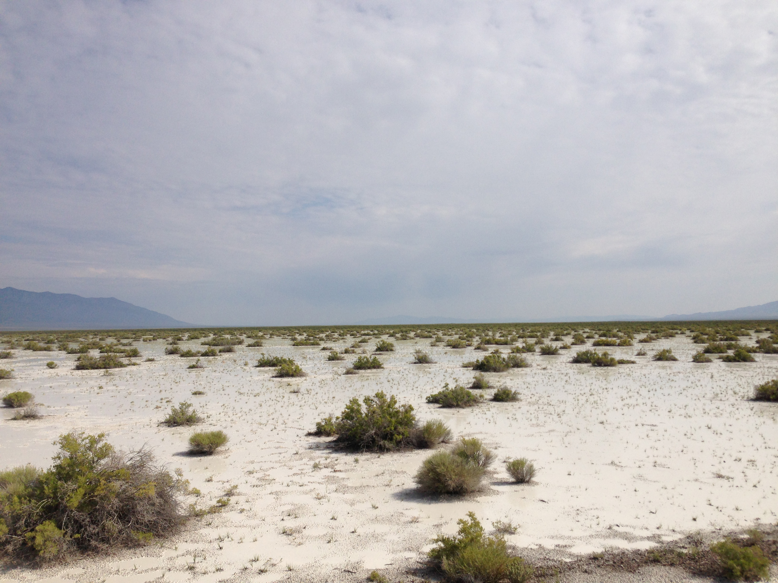 Waterlogged alkali flats along Cherry Creek Road (White Pine County Route 21 and former Nevada State Route 489) in Steptoe Valley, Nevada